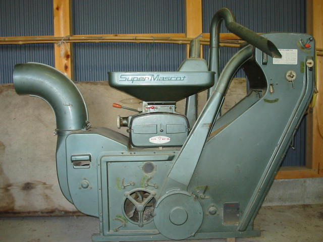 An old-type rice huller, popular in 1960s-1970s in Japan.